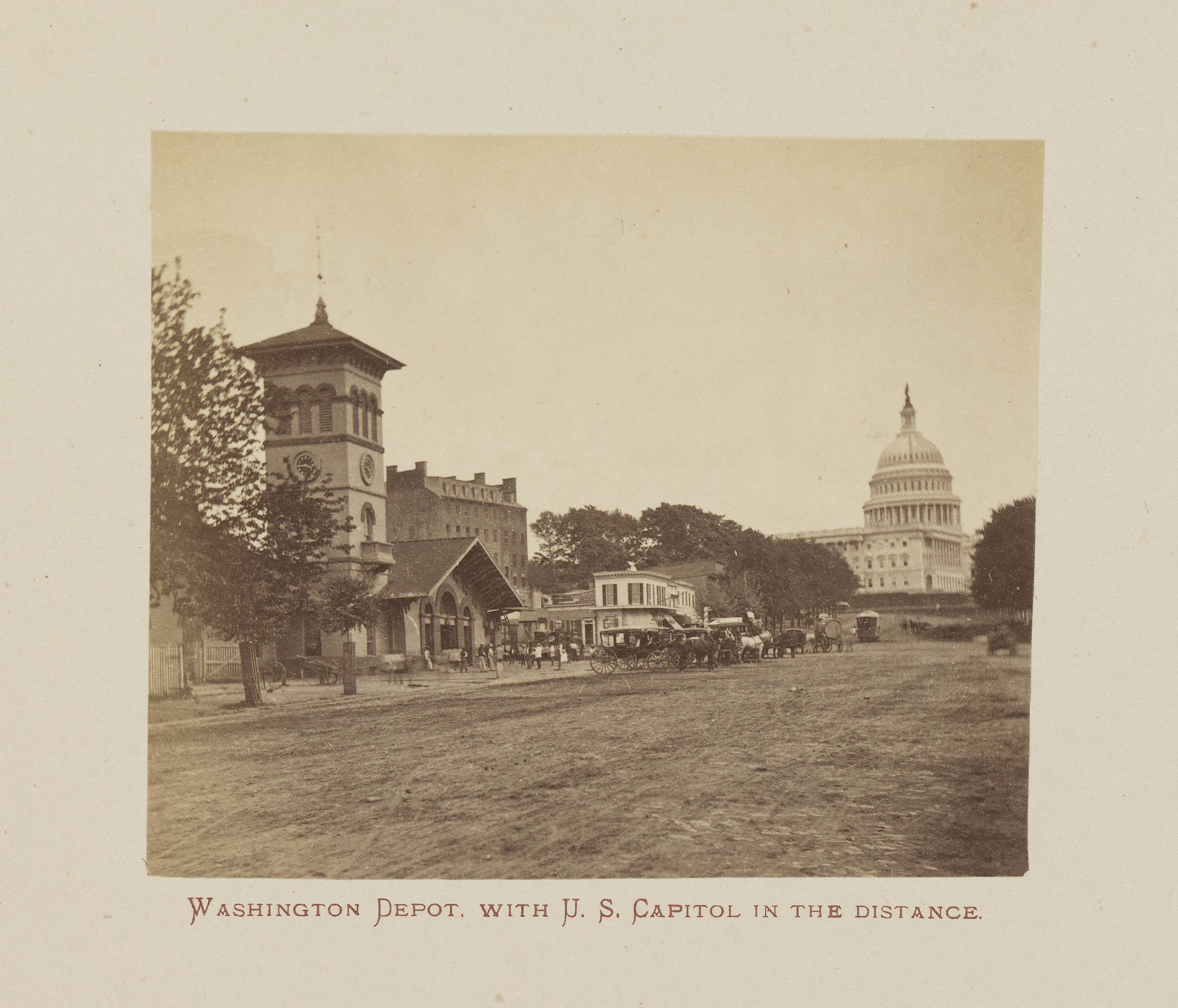 Title: Washington Depot, with U. S. Capitol in the Distance. Part Of: Photographic views of the Baltimore and Ohio Rail Road and its branches from the lakes to the sea Description: This is an albumen print from the book Photographic Views of the Baltimore and Ohio Rail Road, and Its Branches, From The Lakes to The Sea, which is illustrated with images of attractions found along the route of the Baltimore and Ohio Railroad between Baltimore and Chicago. Physical Description: 1 photographic print: albumen, part of 1 volume; 8 x 10 cm on 26 x 34 cm File: vault_ag1982_0119x_085_1_opt.jpg Rights: Please cite Southern Methodist University, Central University Libraries, DeGolyer Library when using this image file. A high-quality version of the file may be obtained for a fee by contacting . For more information, View the full album at: View the North America: Photographs, Manuscripts, and Imprints